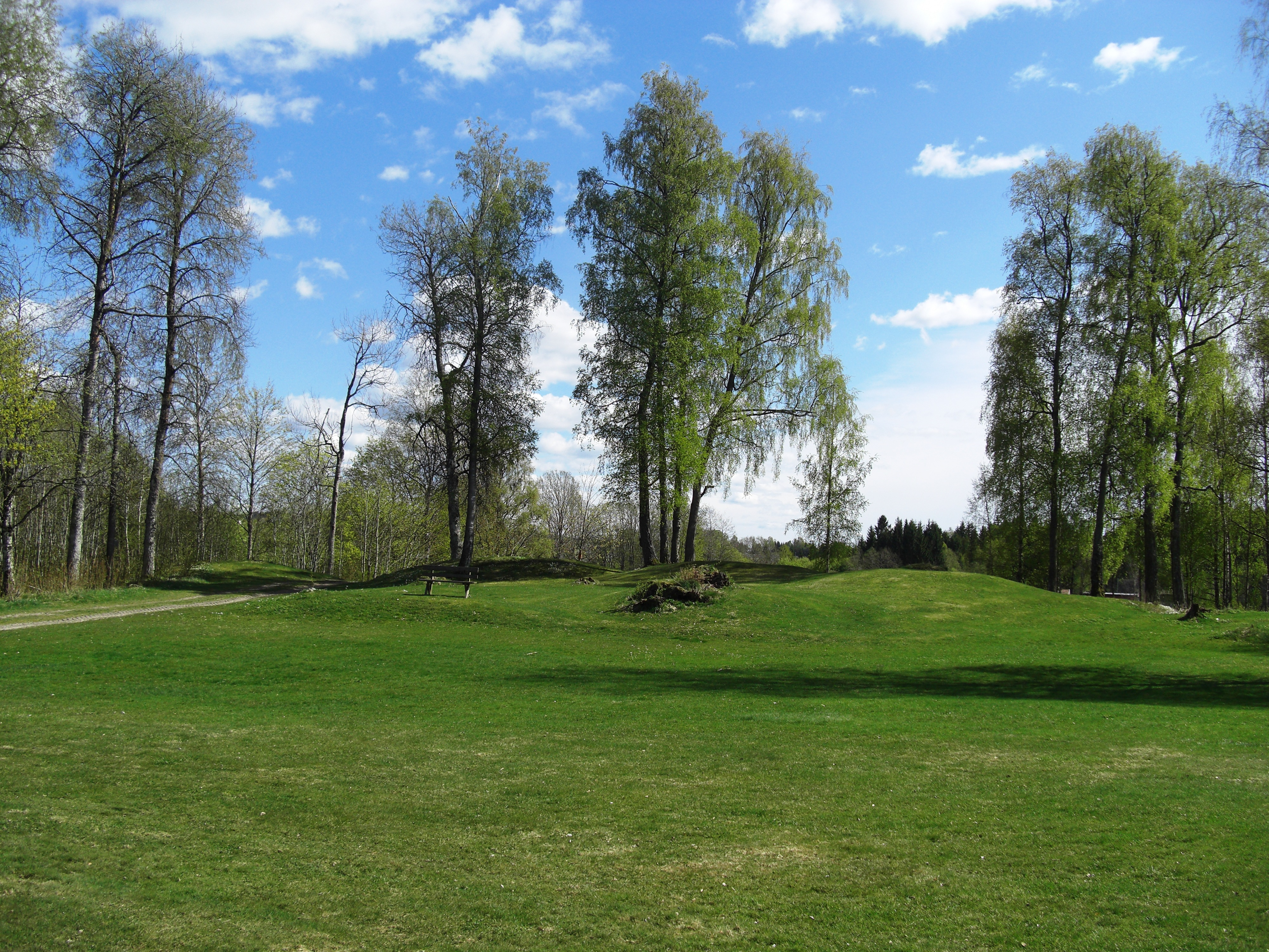 Bjerkelunden grave mounds